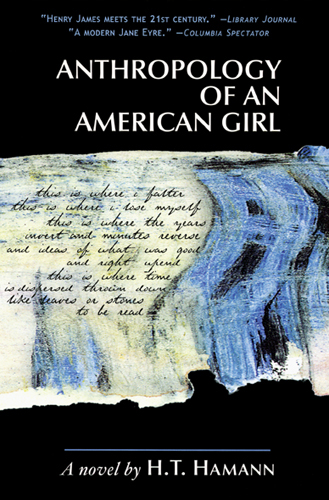 Original book cover (2003 paperback version) of Anthropology of an American Girl, written by Hilary Thayer Hamann